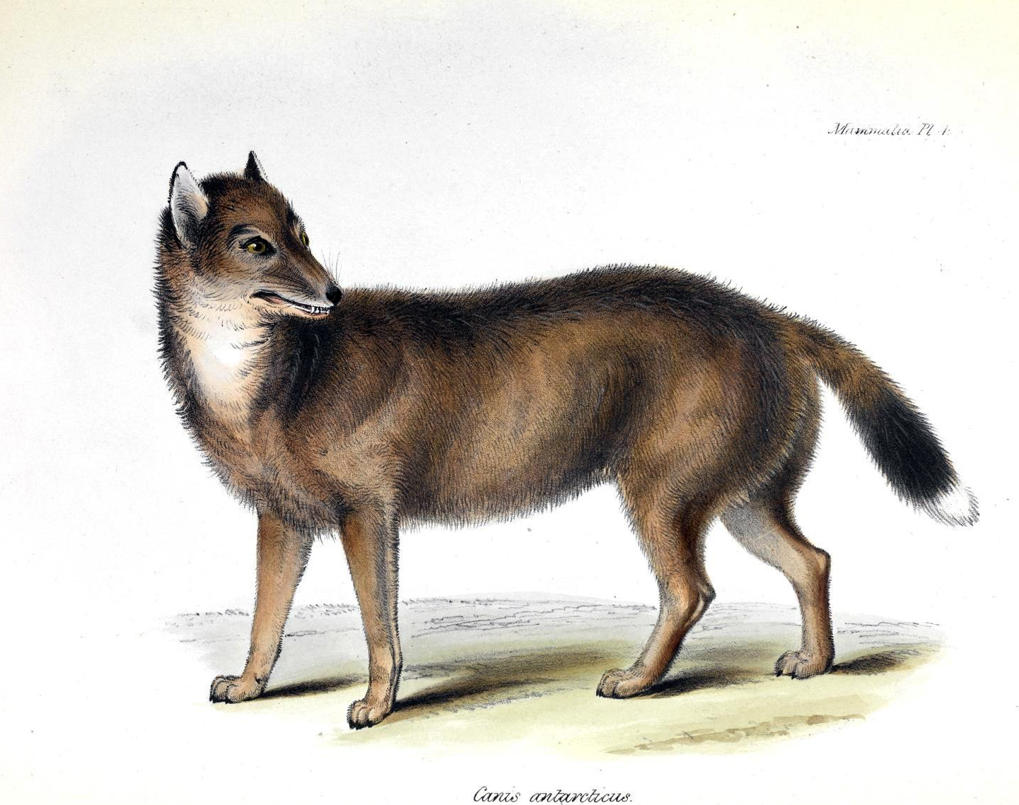 Falklandwolf (Dusicyon australis) (Original description: Canis antarcticus)